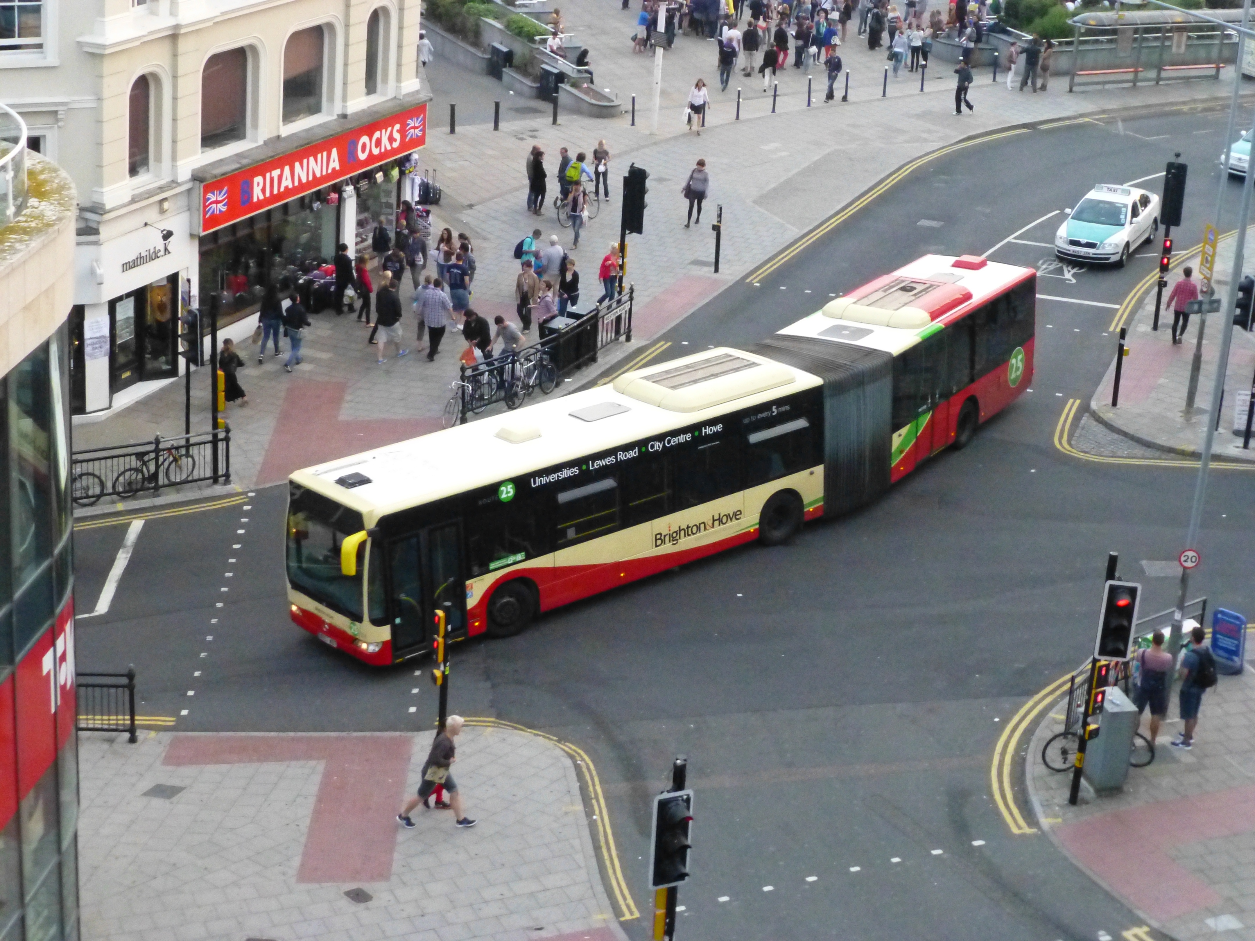 Brightons newest bus a Mercedes Citaro Bendy Bus turnes into North street.